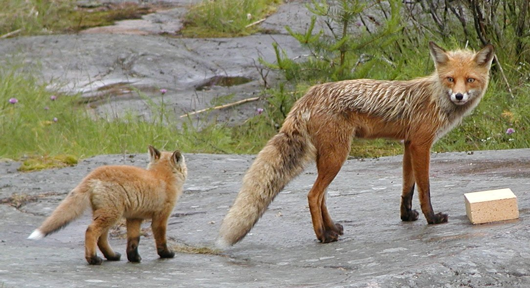 Two red foxes.